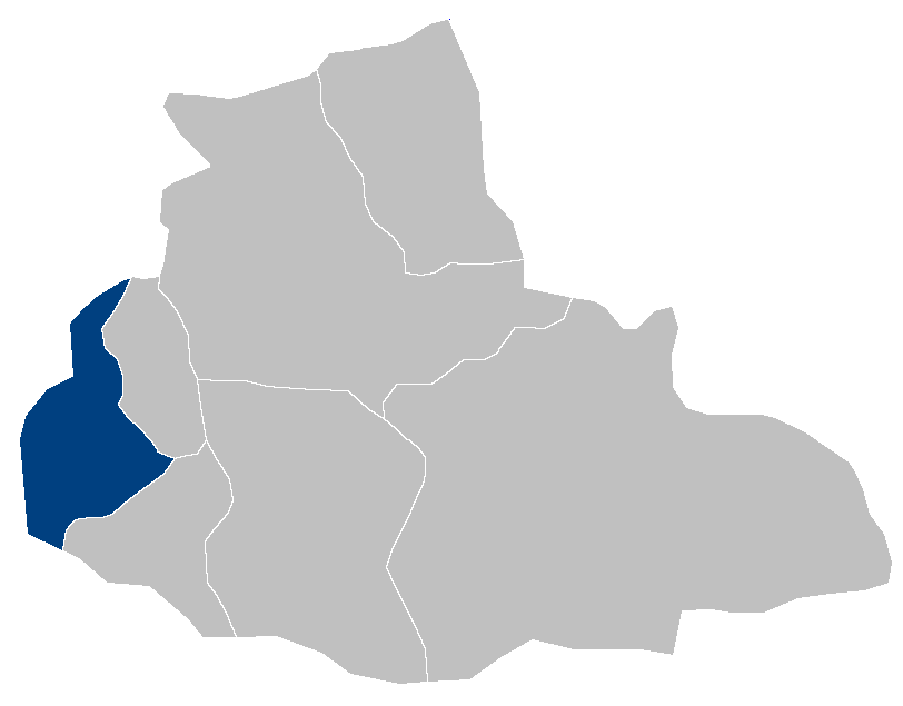 Location map for the Ab Kamari District of Badghis Province, Afghanistan. Original map source: Image:Badghis districts.png